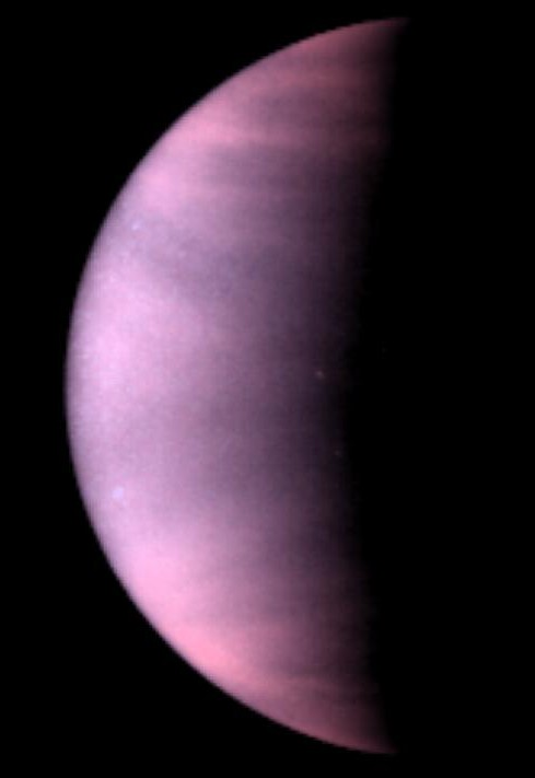 This is a NASA Hubble Space Telescope ultraviolet-light image of the planet Venus, taken on January 24 1995, when Venus was at a distance of 70.6 million miles (113.6 million kilometers) from Earth. Venus is covered with clouds made of sulfuric acid, rather than the water-vapor clouds found on Earth. These clouds permanently shroud Venus' volcanic surface, which has been radar mapped by spacecraft and from Earth-based telescope. At ultraviolet wavelengths cloud patterns become distinctive. In particular, a horizontal "Y"-shaped cloud feature is visible near the equator. Similar features were seen from Mariner 10, Pioneer Venus, and Galileo spacecrafts. This global feature might indicate atmospheric waves, analogous to high and low pressure cells on Earth. Bright clouds toward Venus' poles appear to follow latitude lines. The polar regions are bright, possibly showing a haze of small particles overlying the main clouds. The dark regions show the location of enhanced sulfur dioxide near the cloud tops. From previous missions, astronomers know that such features travel east to west along with the Venus' prevailing winds, to make a complete circuit around the planet in four days. Because Venus is closer to the Sun than Earth, the planet appears to go through phases, like the Moon. When Venus swings close to Earth the planet's disk appears to grow in size, but changes from a full disk to a crescent. The image was taken with the Wide Field Planetary Camera-2, in PC mode. False color has been used enhance cloud features.